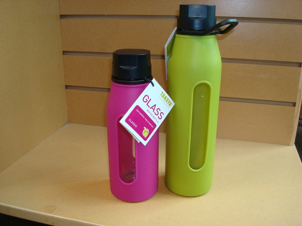 Example of glass water bottle with silicon protective sleeve